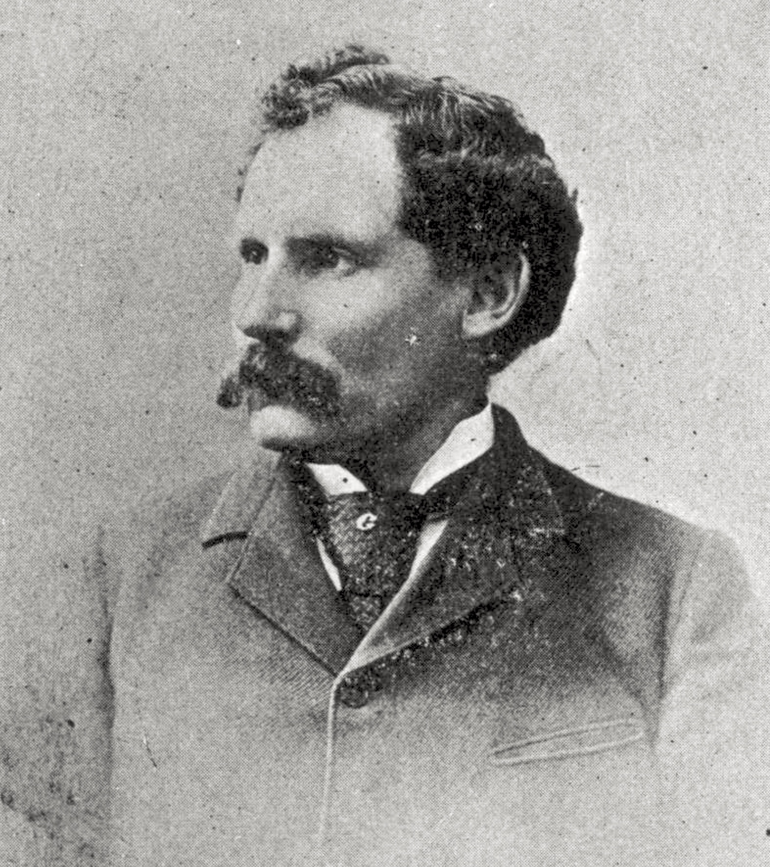 Elisha Scott Loomis. Portrait from biography in The American Mathematical Monthly 1894 Self-taught mathematics teacher, author of "The Pythagorean Proposition"